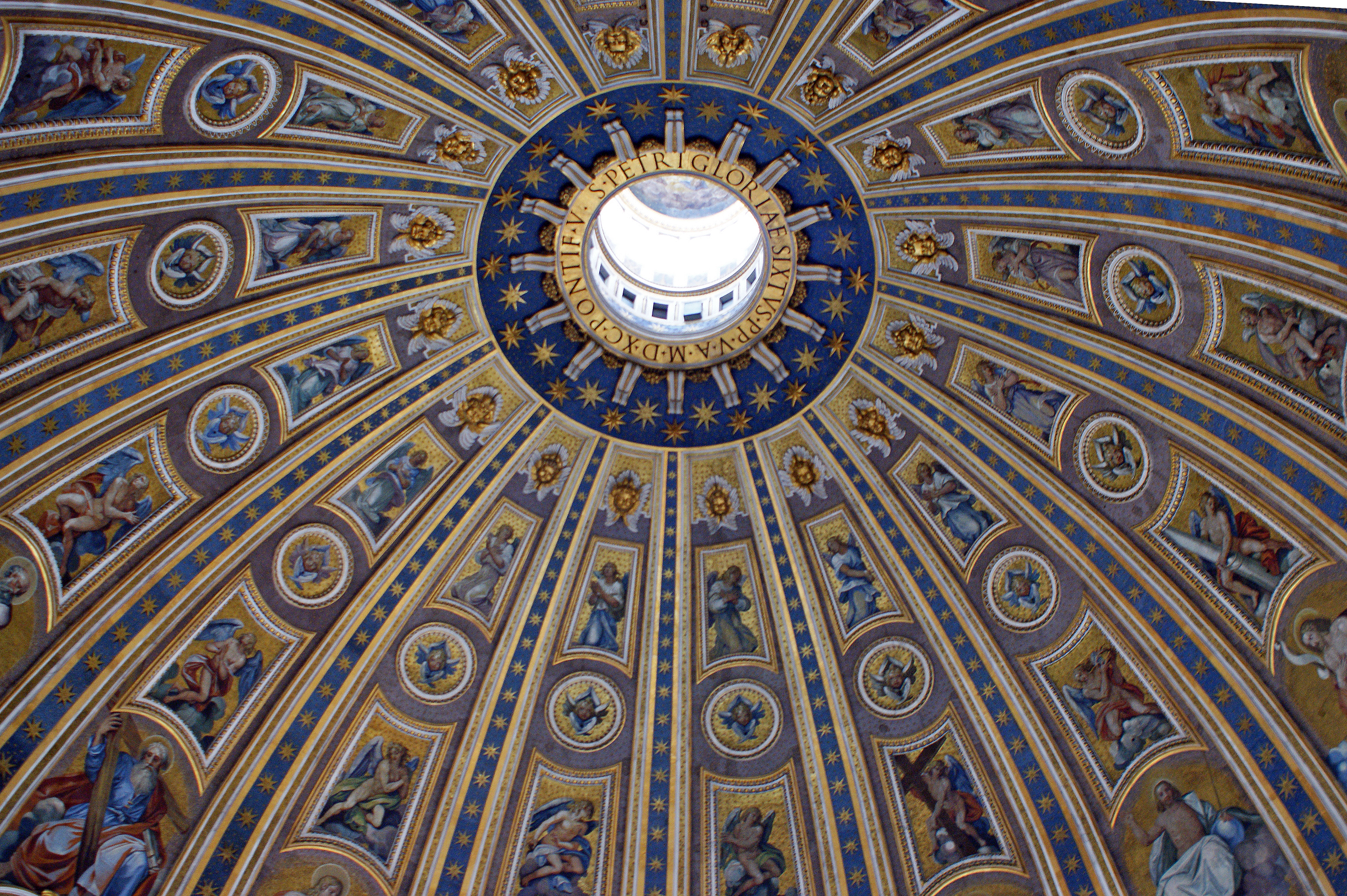 The Dome from the inside gallery